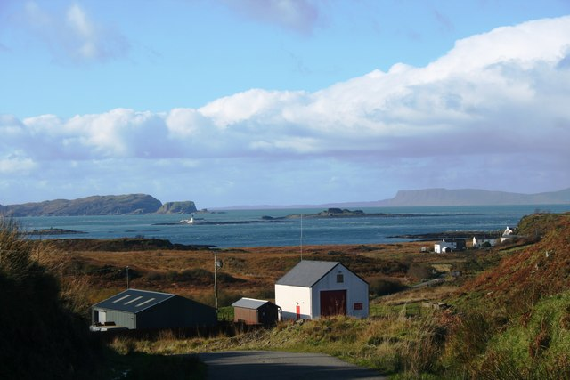 Road to Cullipool